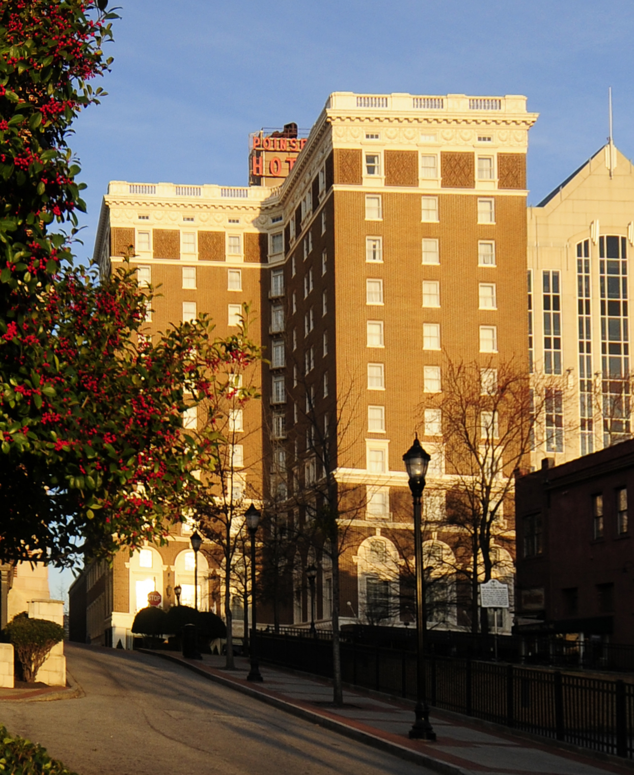 Poinsett Hotel